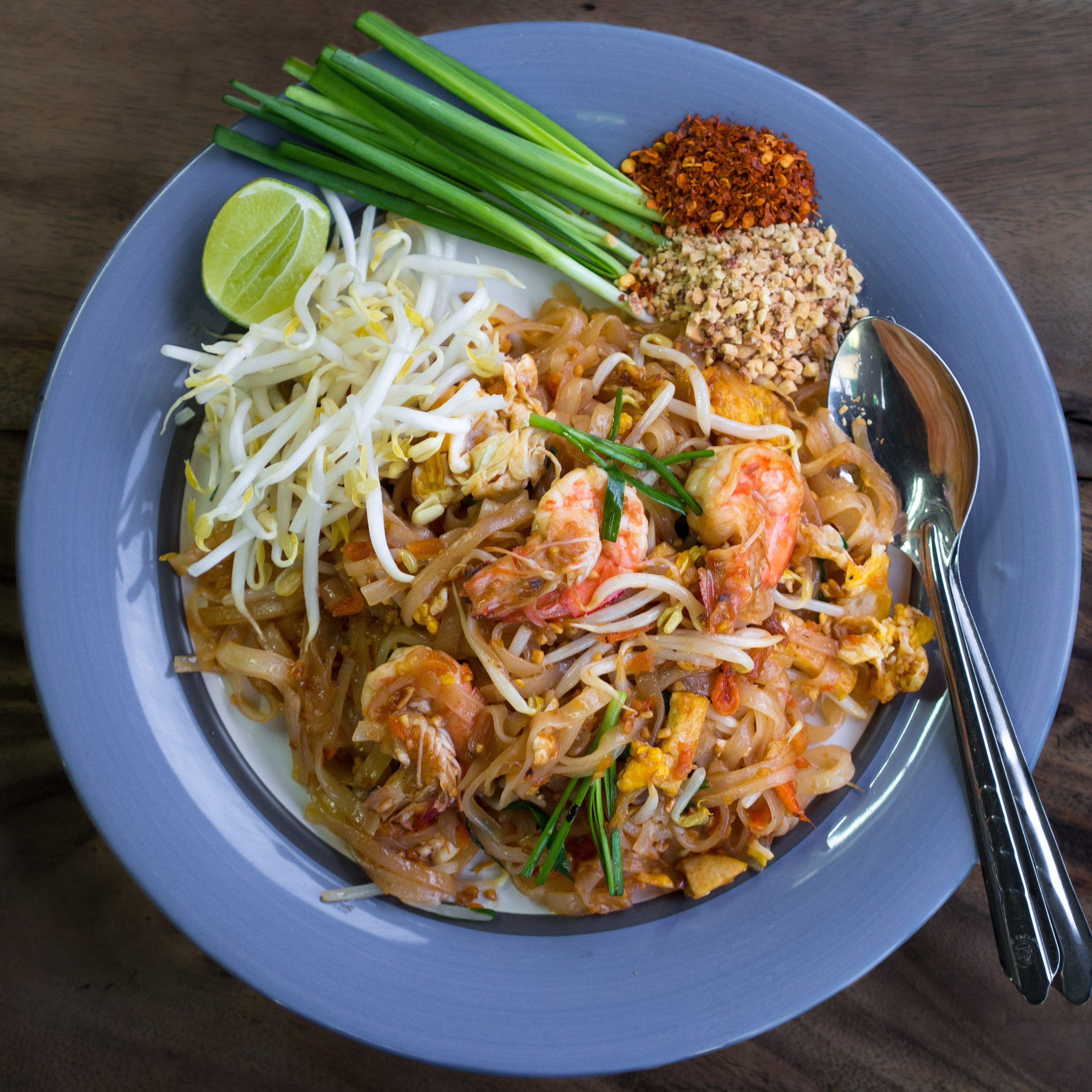 Phat Thai kung sot ("fresh" prawn phat Thai), costing 35 baht, from a street stall in the Chang Khien neighbourhood of Chiang Mai, Thailand. The kung sot ("fresh prawn") acts as a contrast to kung haeng ("dried prawns/shrimp"). Dried shrimp should feature in every version of phat Thai except in the purely vegetarian variations.